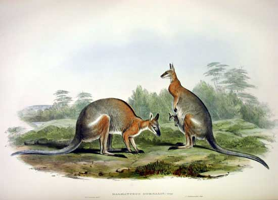 Macropus dorsalis formerly known as Halmaturus dorsalis